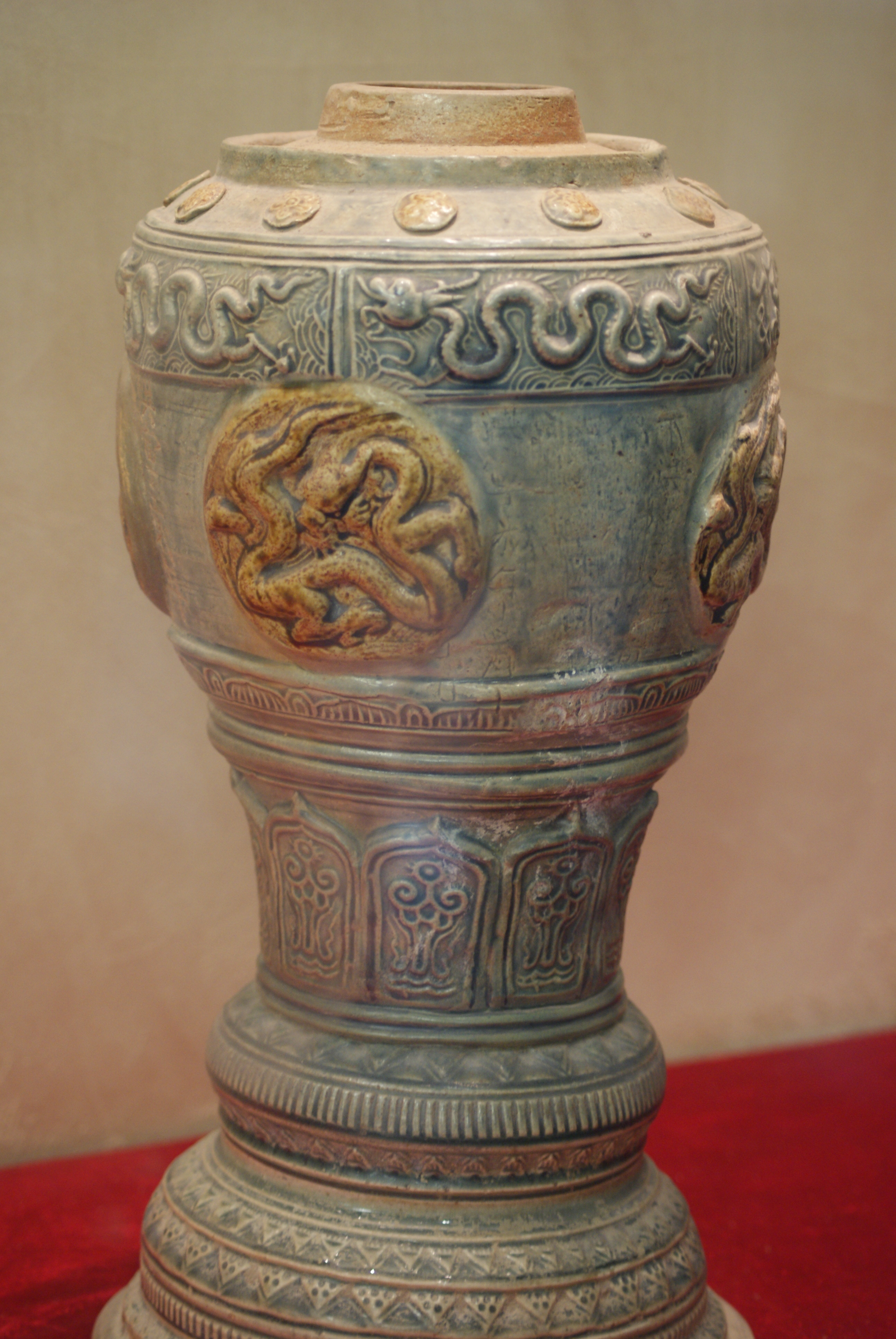 Dragon patterns on a Mạc dynasty vase